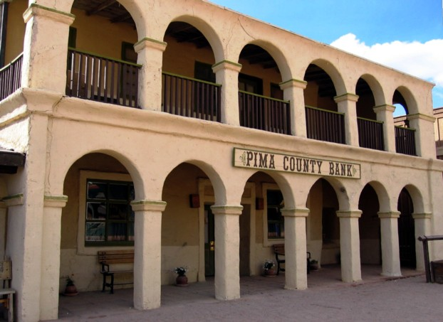 The Pima County Bank at Old Tucson Studios is robbed daily.